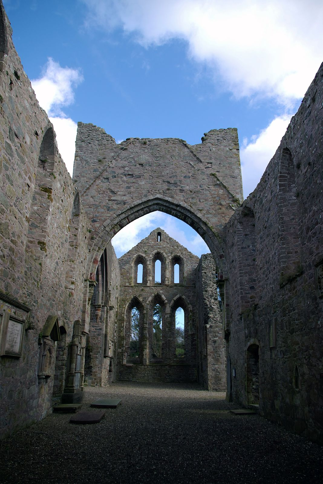 Grey Abbey is a ruined Cistercian priory in County Down, Northern Ireland, currently maintained by the Northern Ireland Environment Agency of the Department of the Environment (Northern Ireland).